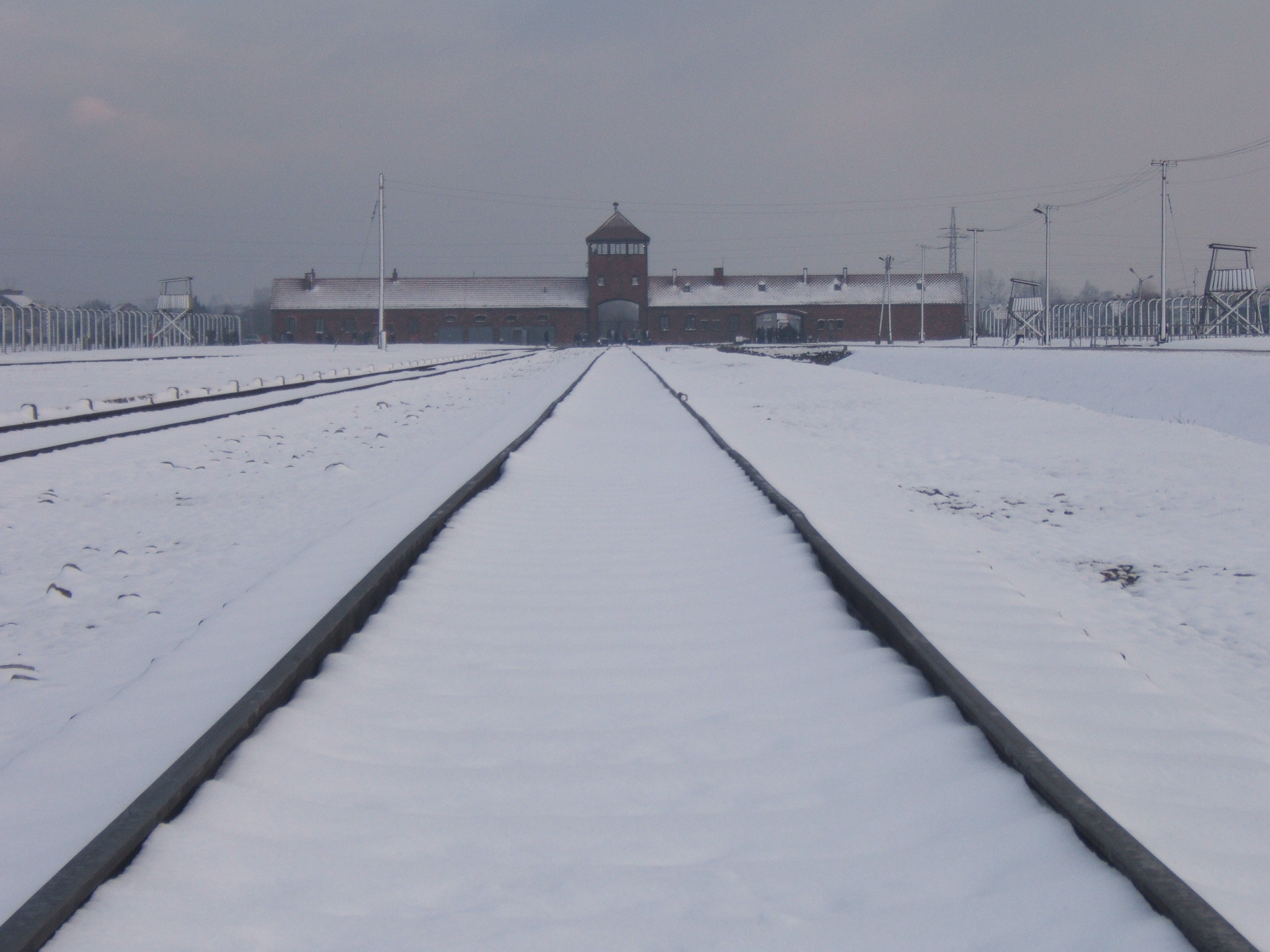 Gate Auschwitz II snowed (viewed from inside the camp)